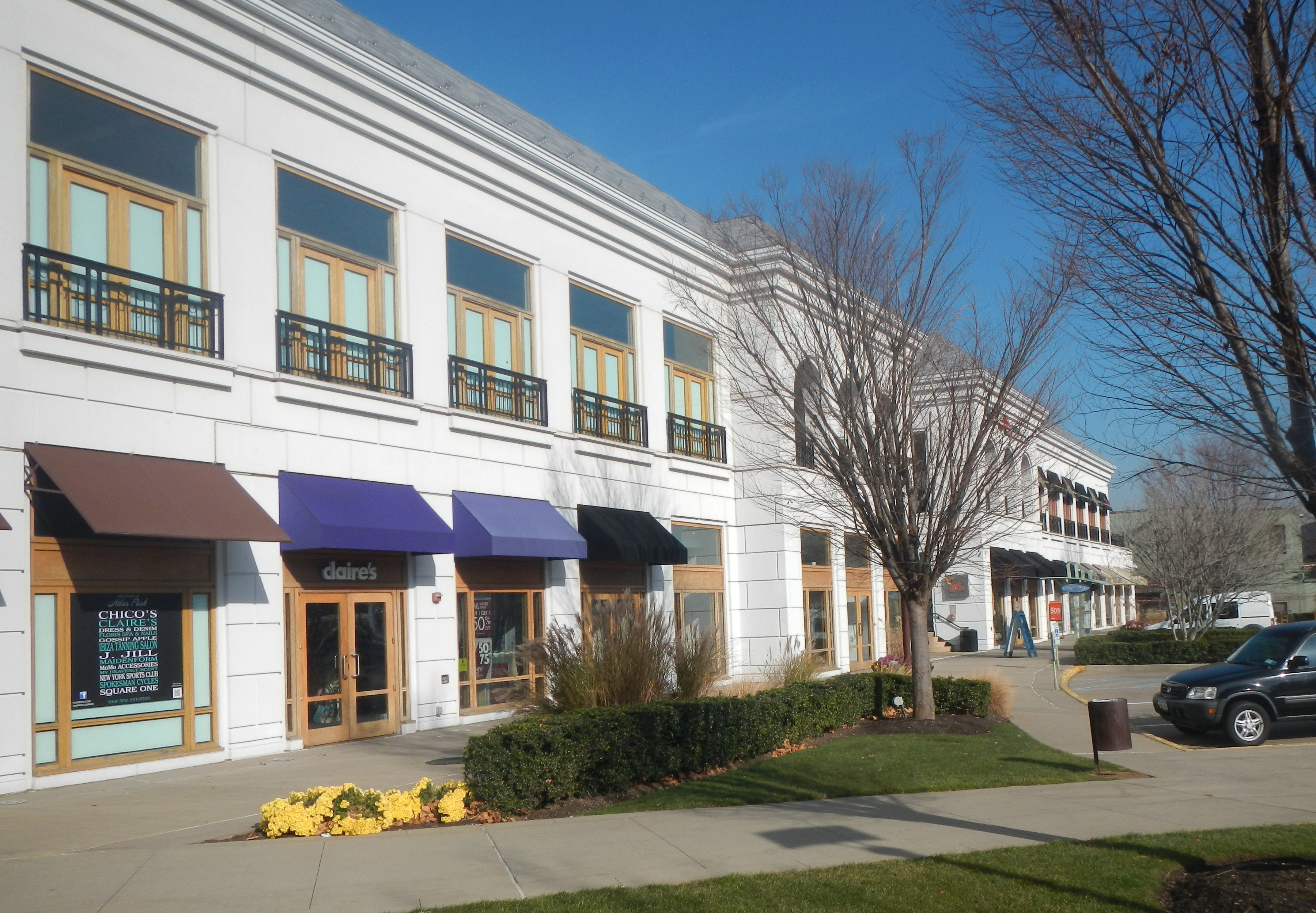 Looking east at shop on a sunny midday.